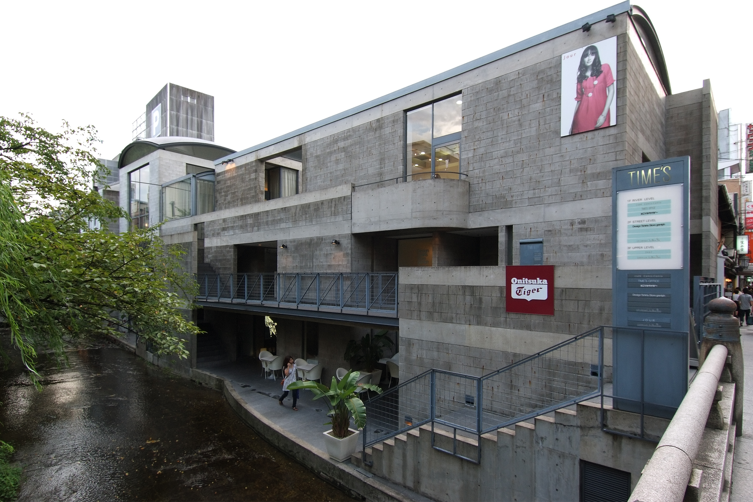 Times I・II, at Kyoto Japan, design by Tadao Ando in 1984 and 1994.